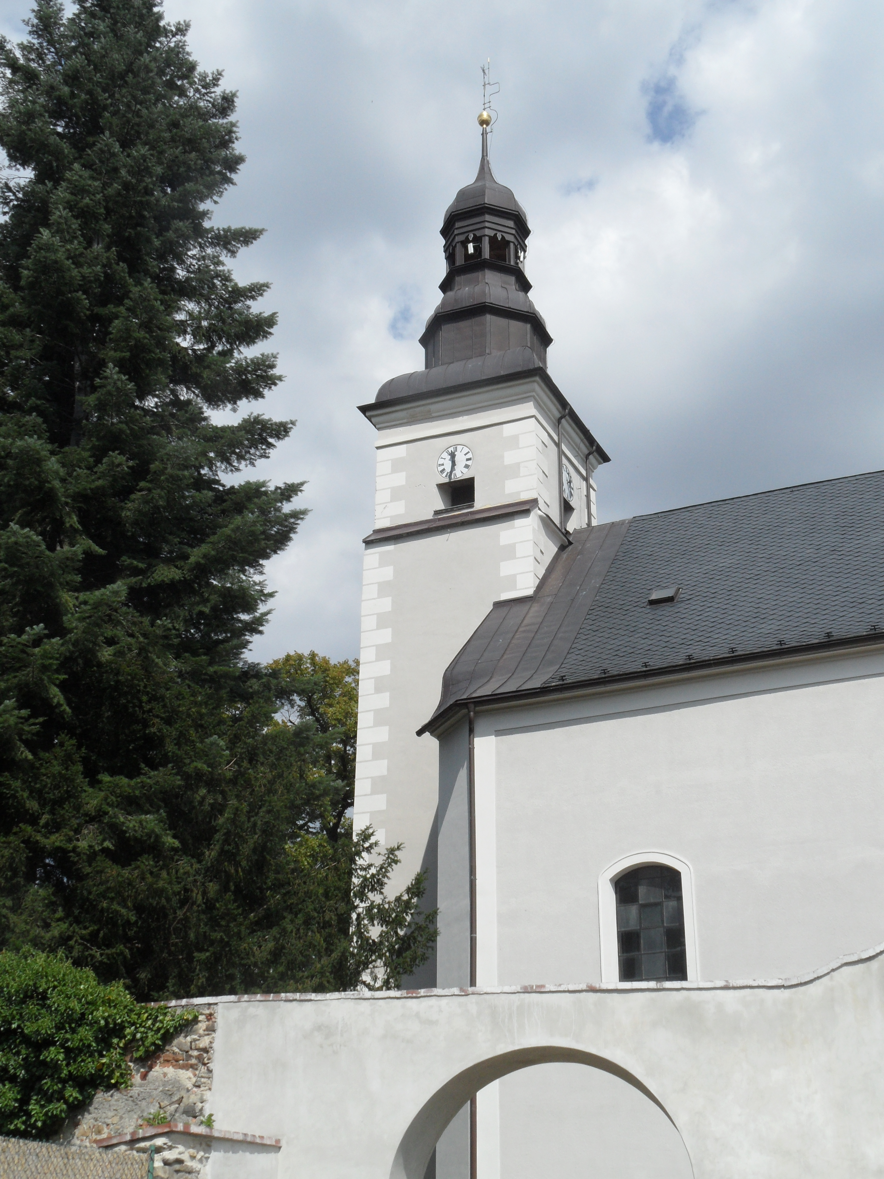 Vlčice: Saint Bartholomew Church. Jeseník District, the Czech Republic.